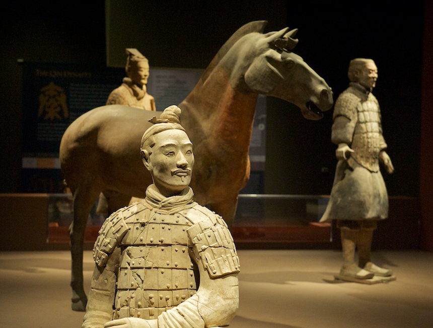 Warrior Group, Bowers Museum in Santa Ana, California